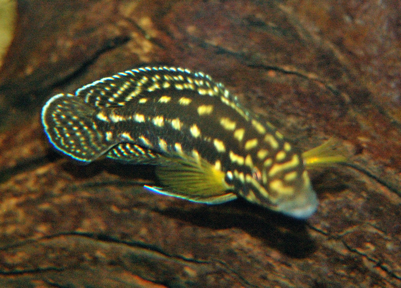 Julidochromis marlieri